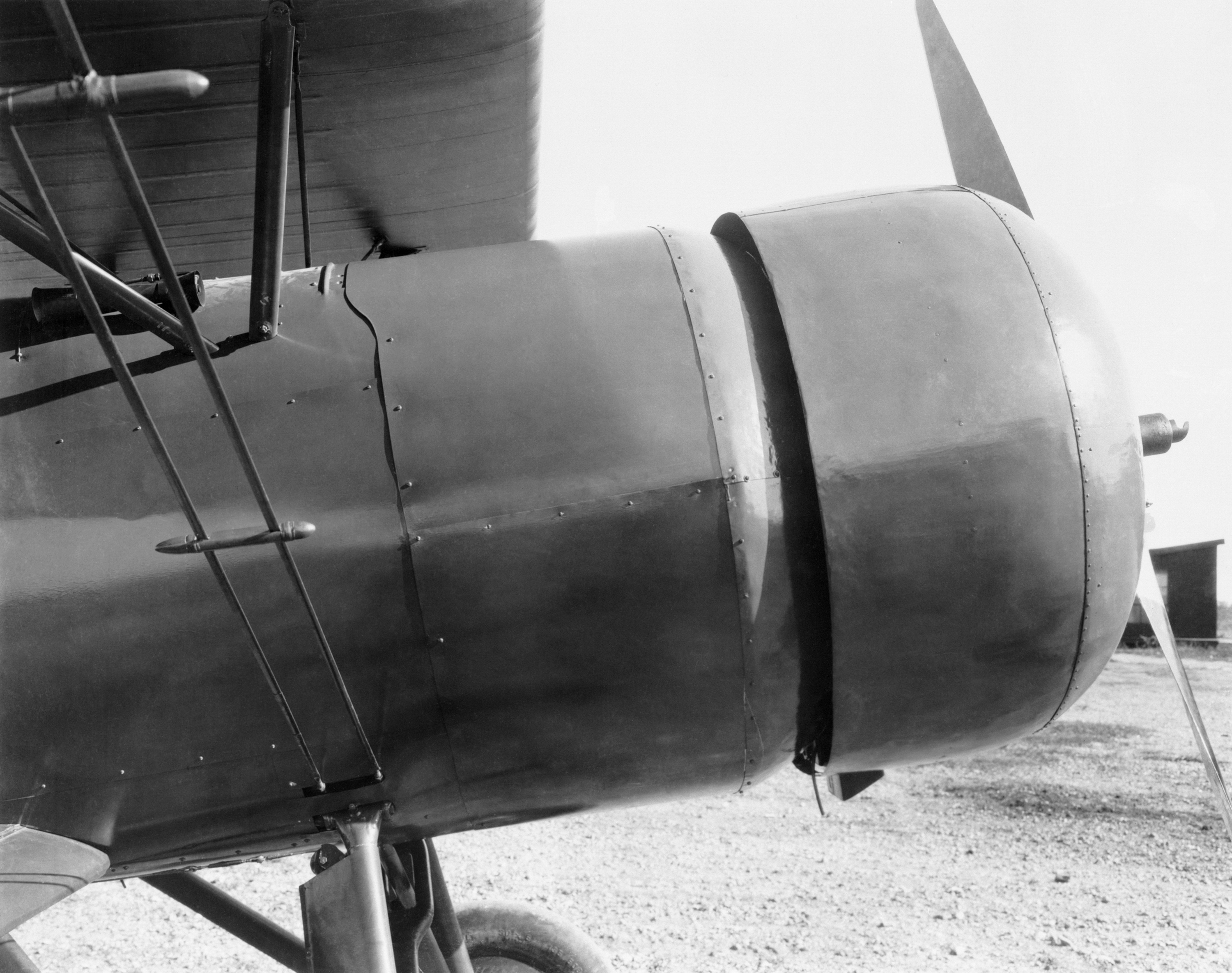 The NACA cowling as applied to a Curtiss AT-5A at the Langley Memorial Aeronautical Laboratory, October 1928.